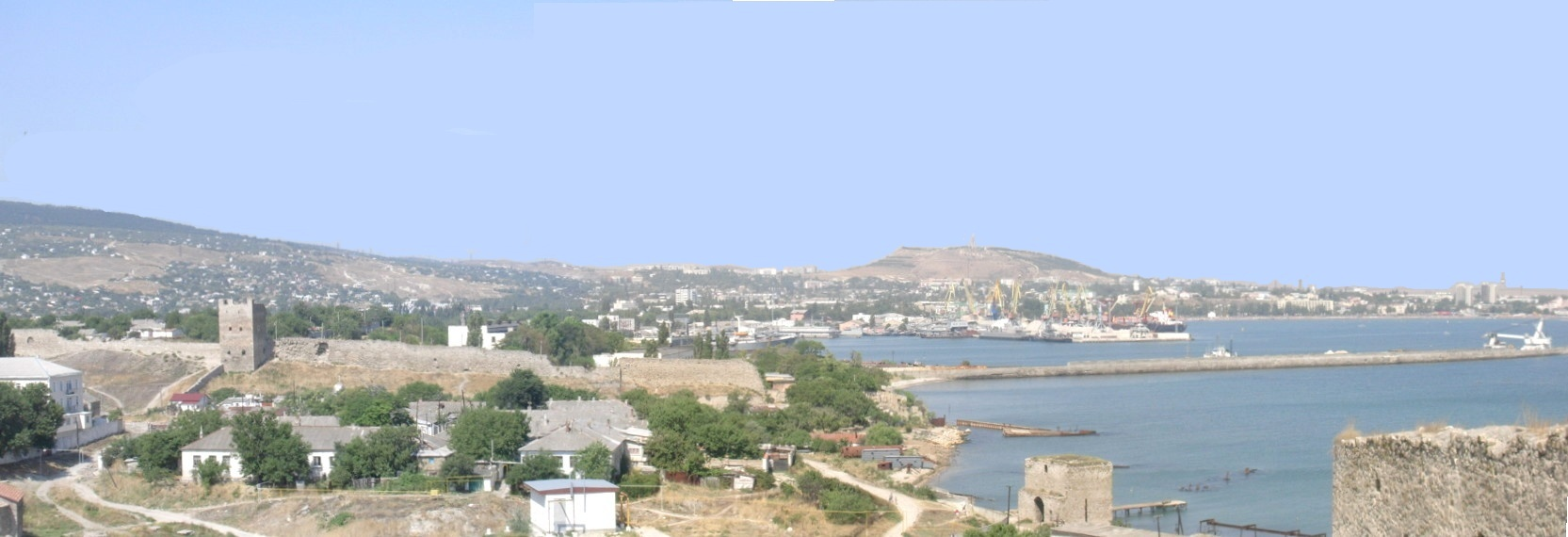 Panorama of town and sea port in Theodosia, Crimea